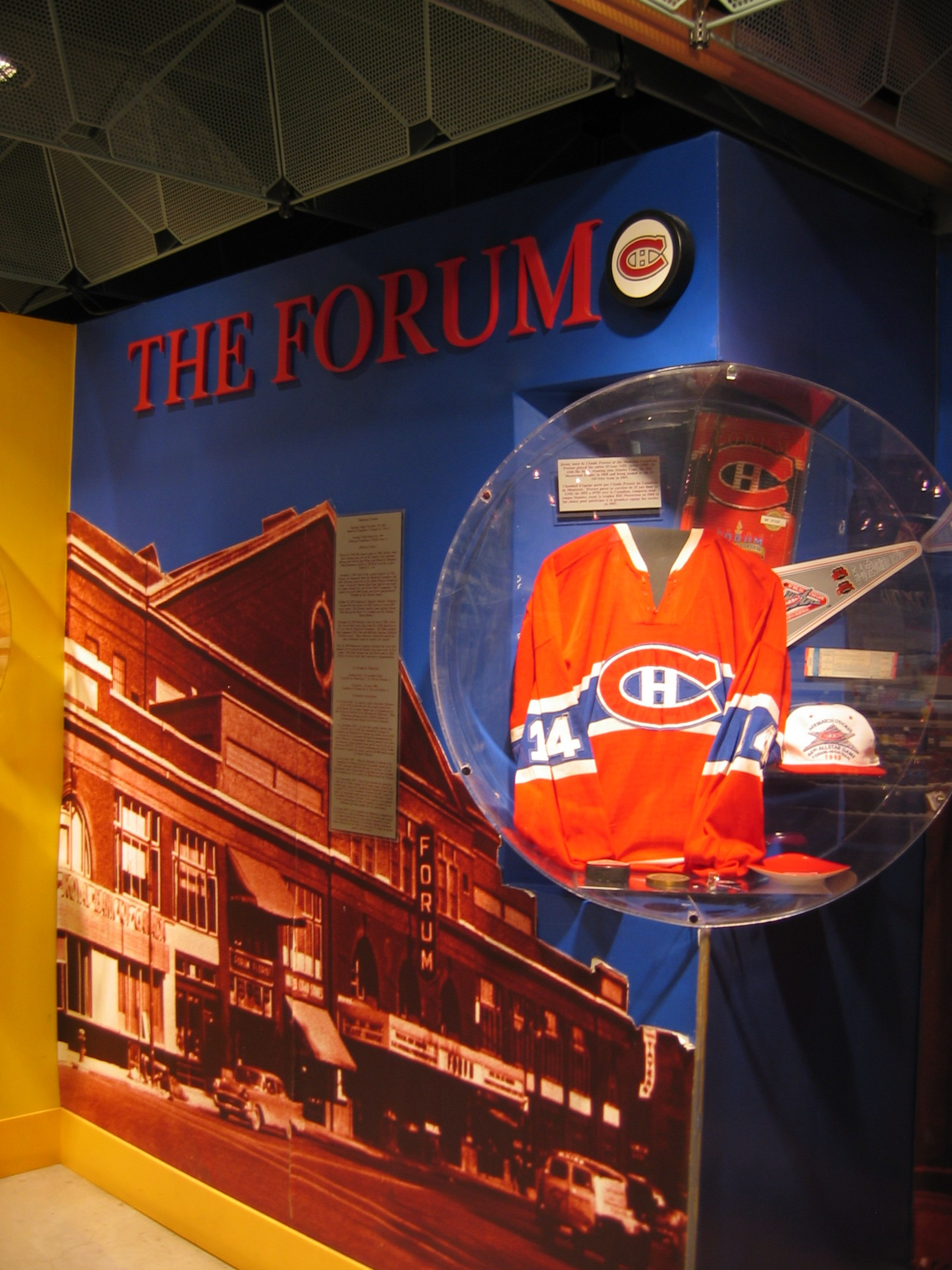 Tribute to the old Montreal Forum (and other original six arenas) at the Hockey Hall of Fame